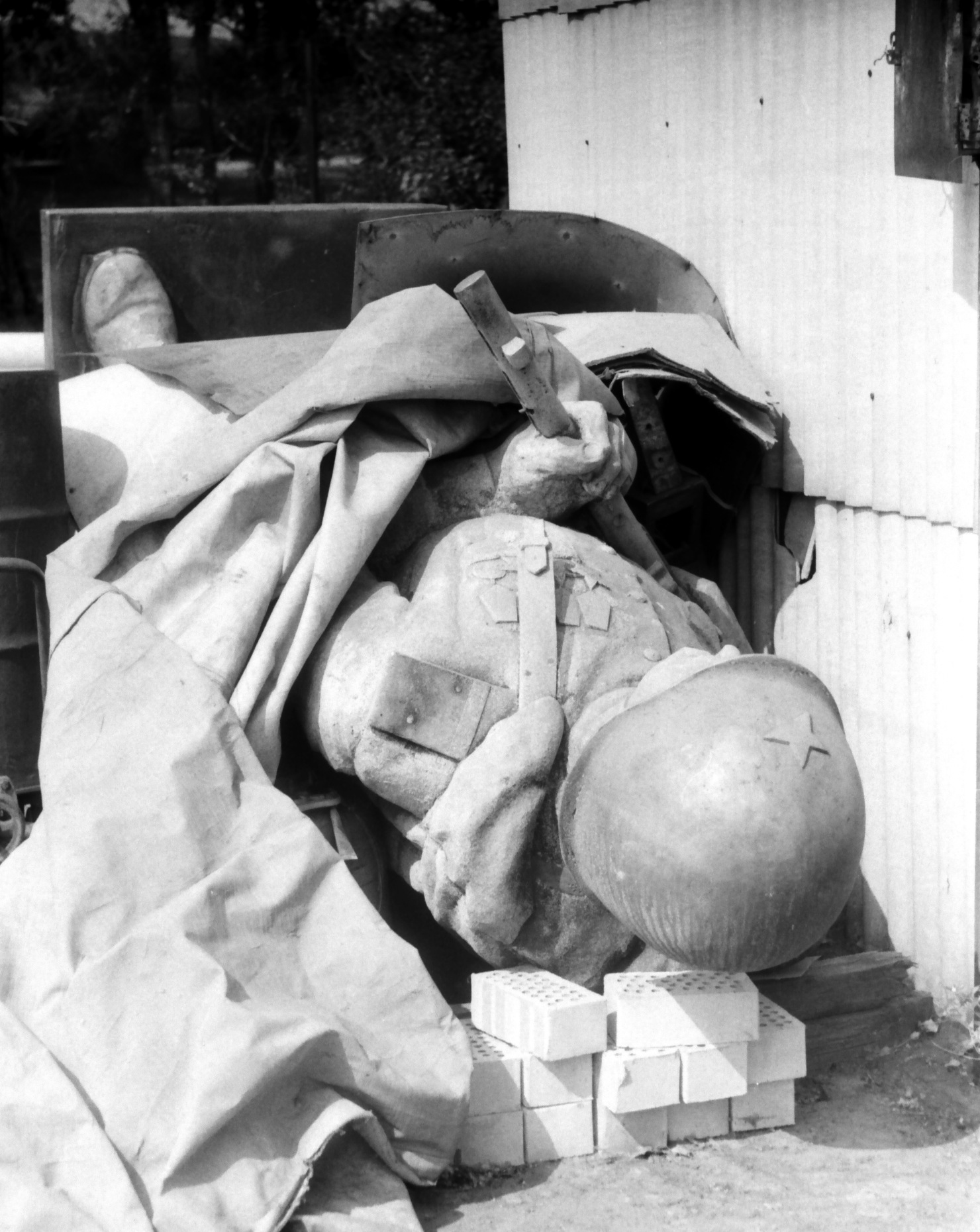 Sculpture of former monument of soviet army in Šiauliai, Lithuania